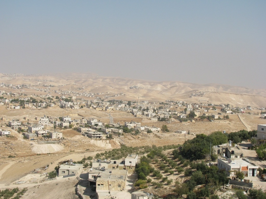 Za'atara at the foot of Herodion